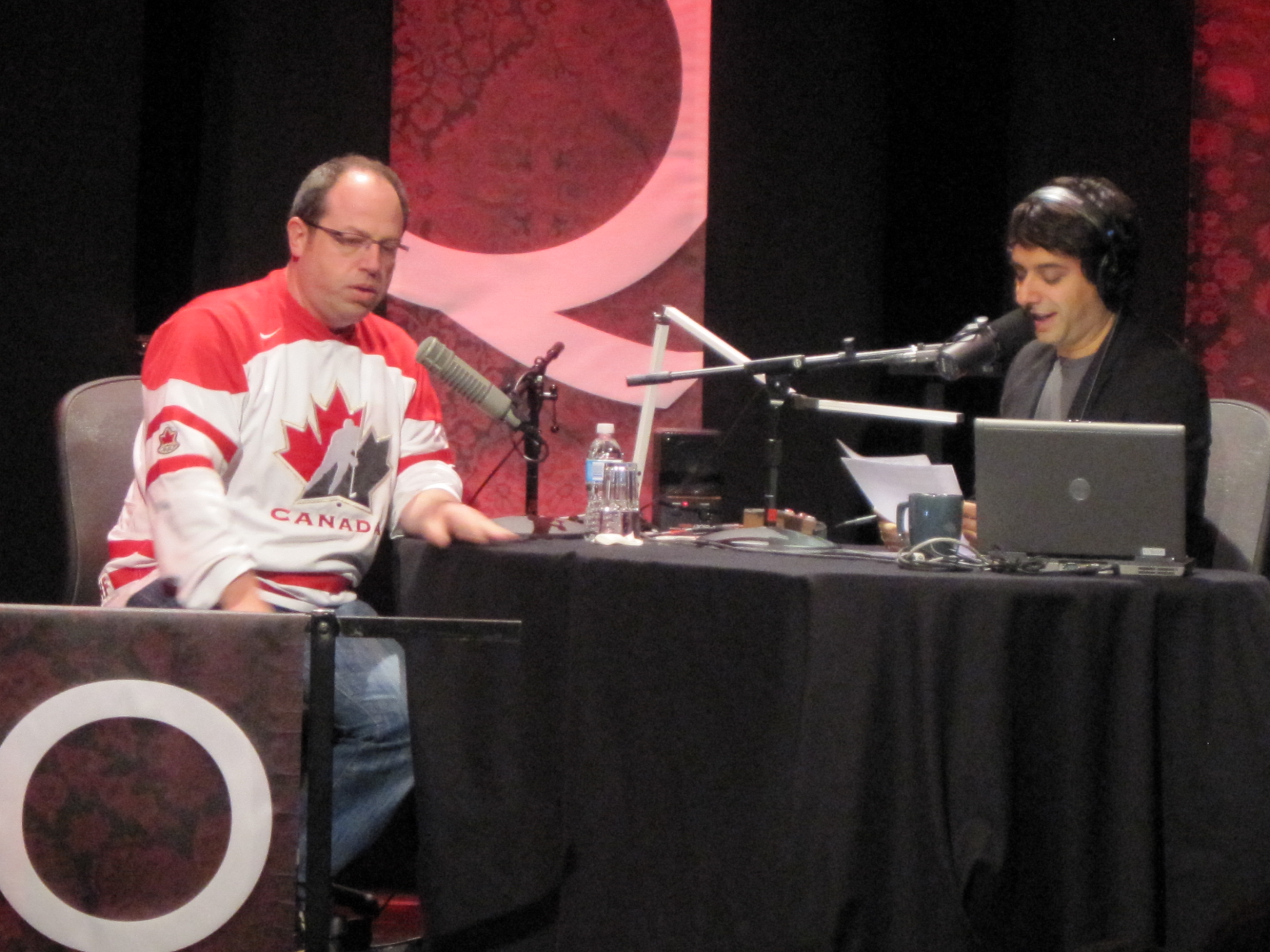 Brent Butt being interviewed by Jian Ghomeshi on Q, February 18, 2010.